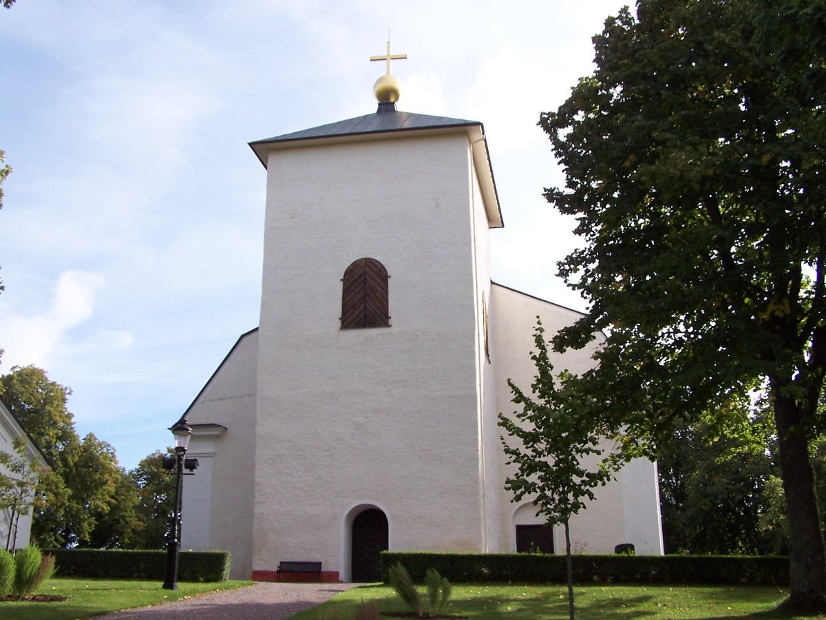 Svärta church, Sweden